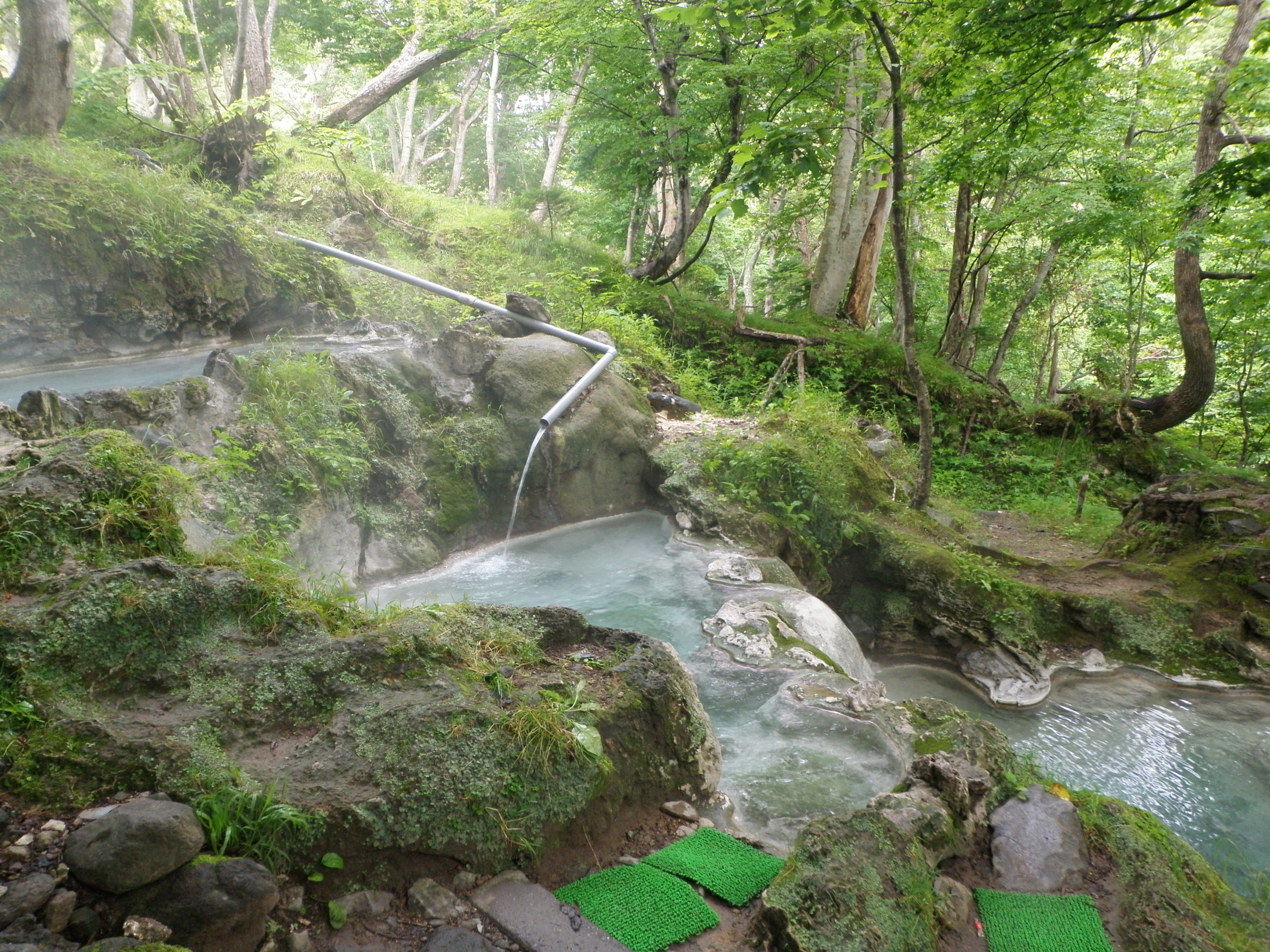 Iwaobetsu Onsen in Shari, Hokkaido.